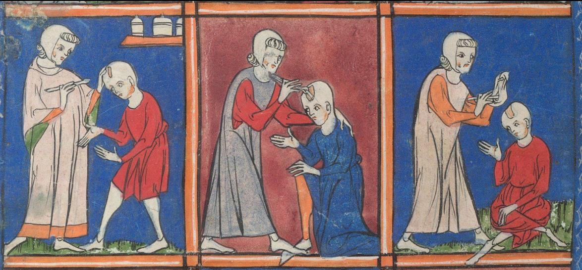 Rogerius Salernitanus - Detail of the middle register of a full-page miniature with scenes of a surgeon performing an operation for a compound fracture of the skull on a standing, kneeling, and seated patient.